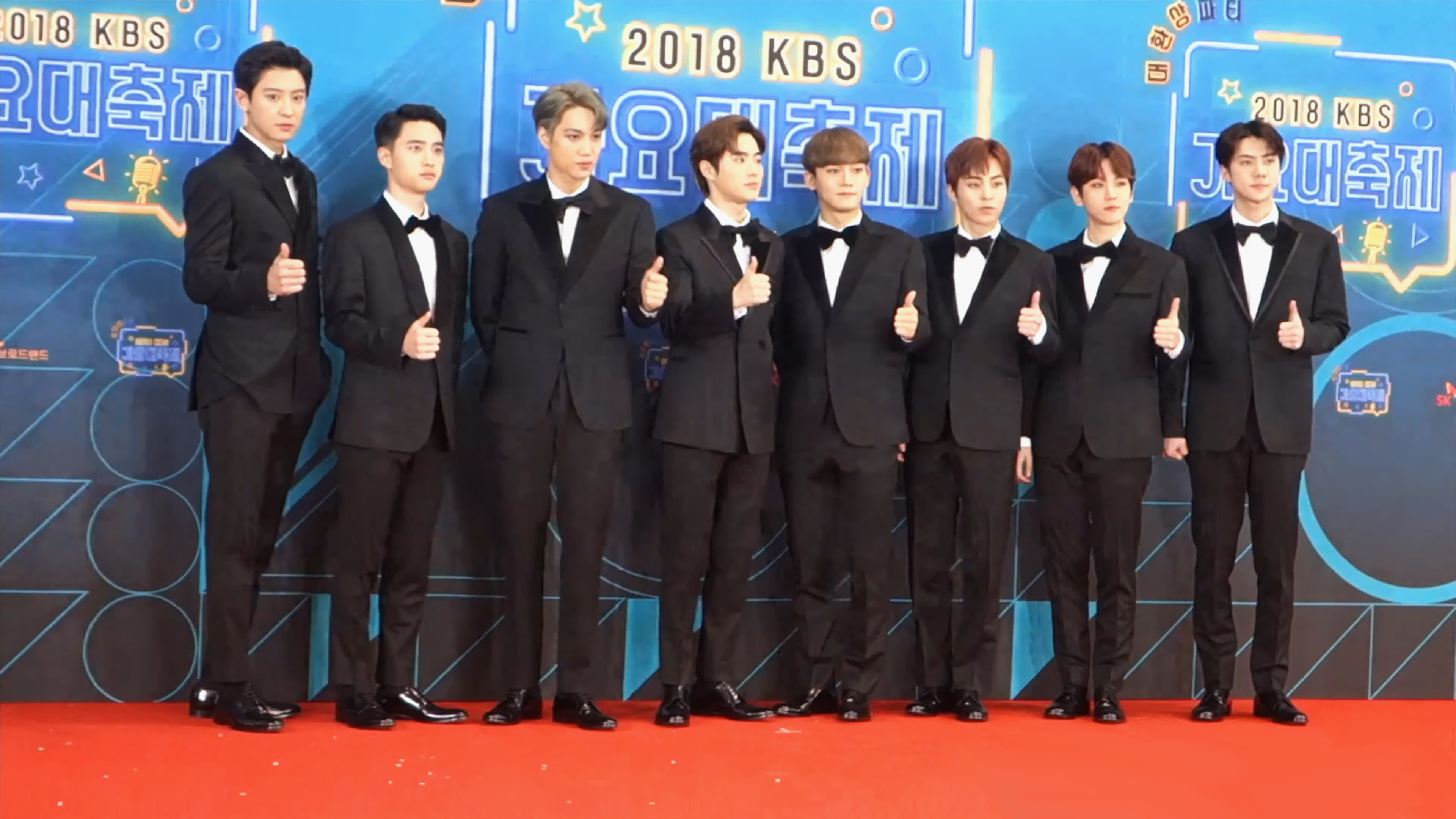 EXO at KBS Gayo Daejun on December 28, 2018.